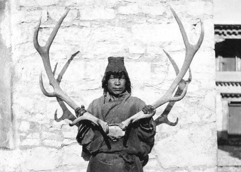 Tibetexpedition, Tibeter mit Hirschgeweih Samjeh [Samye], Tibeter mit Hirschgeweih Information added by Wikimedia users.